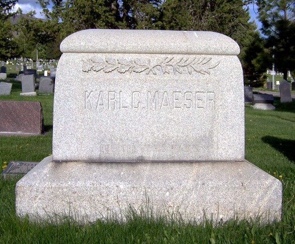 Karl G. Maeser's Grave Marker